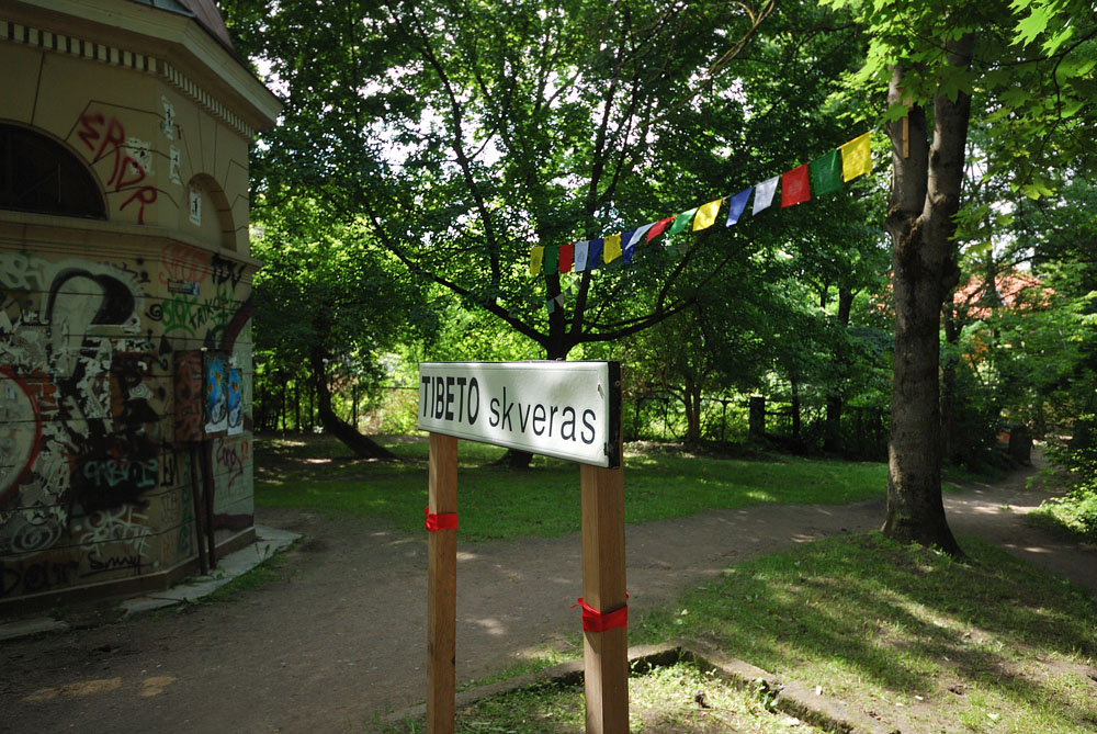 Tibet Square in Vilnius